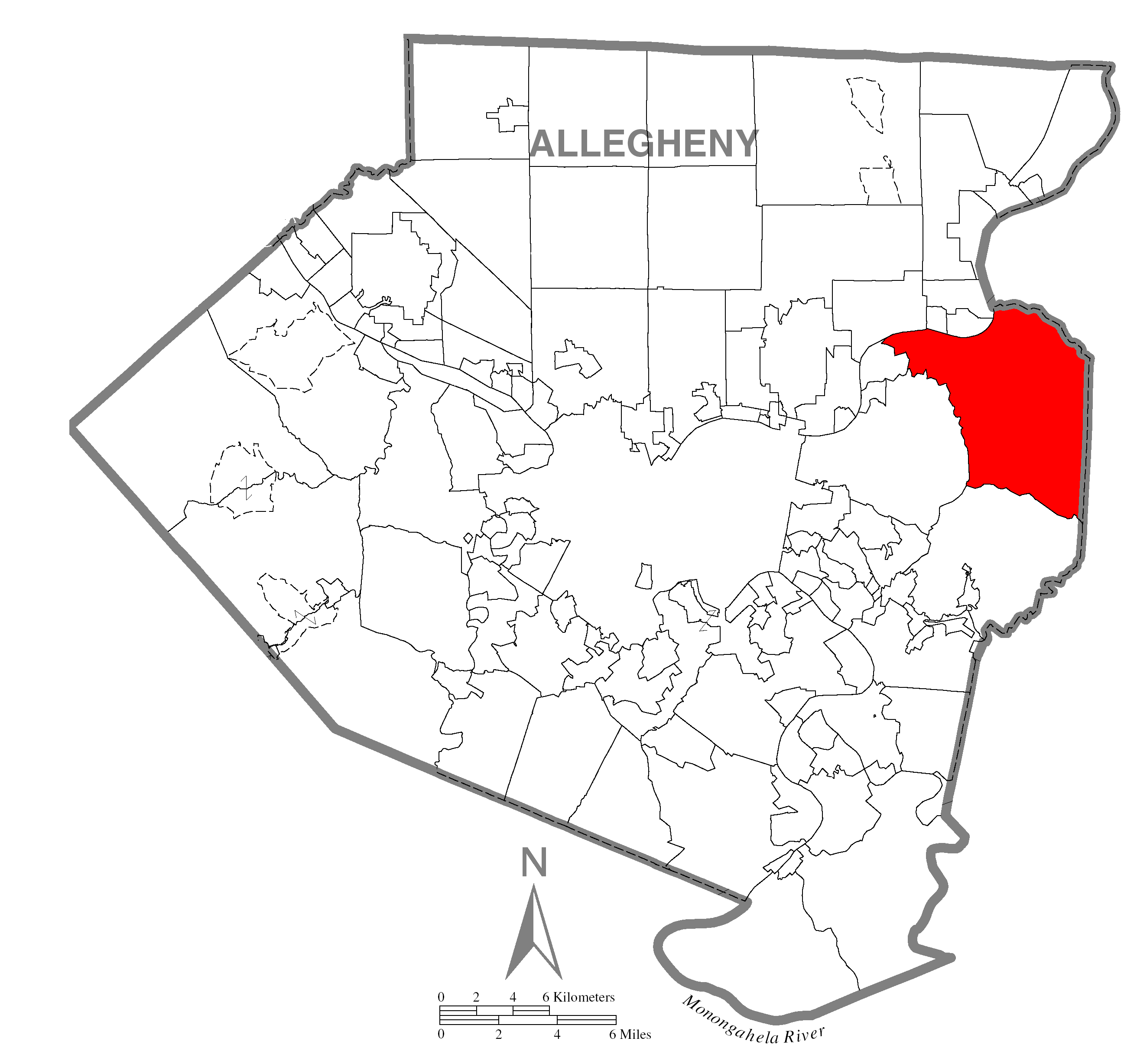 A map of Allegheny County showing Plum Township, Pennsylvania (alternate) highlighted on the map.